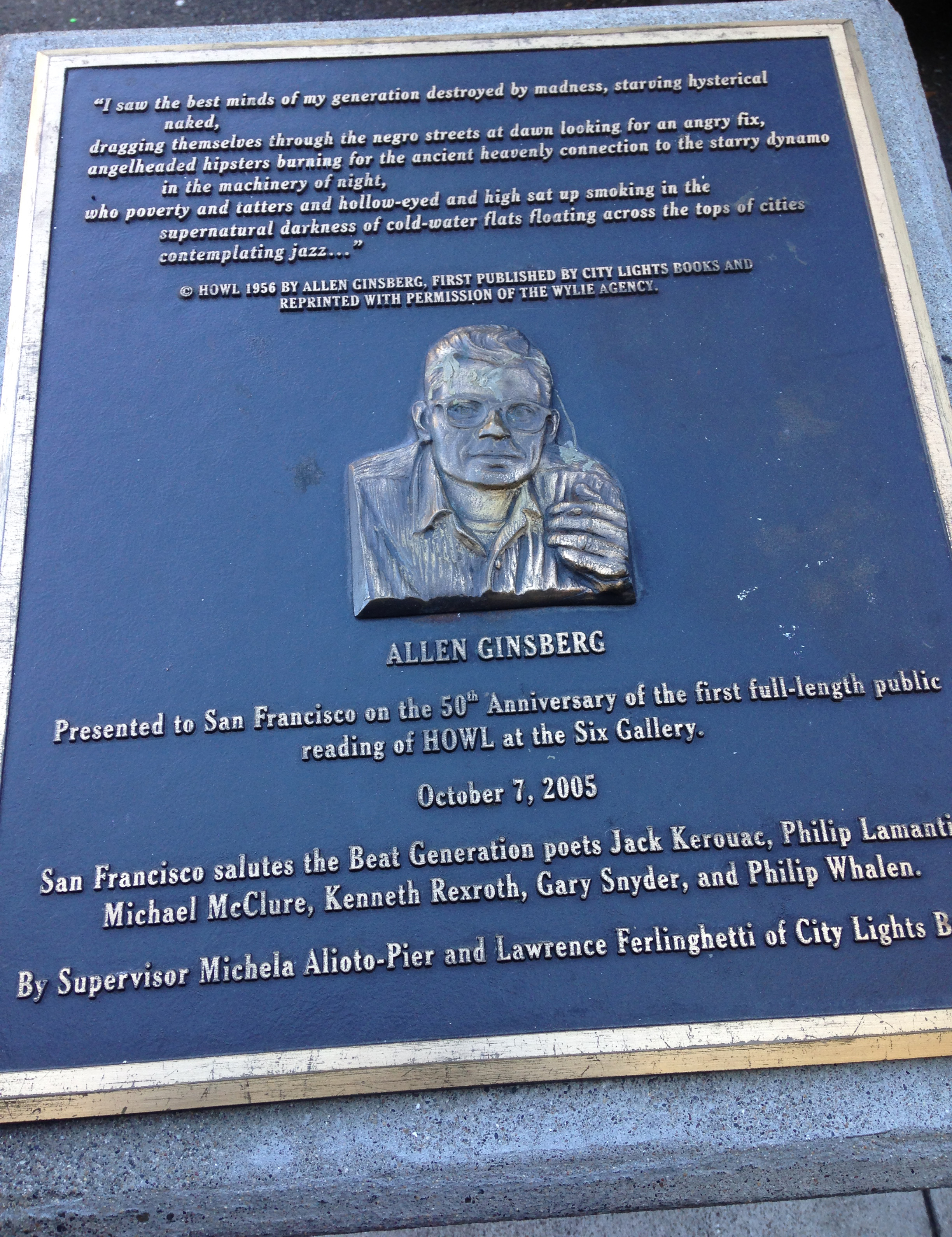 Placed before the location of Six Gallery on the 50th anniversary of the first full-length public reading of HOWL.